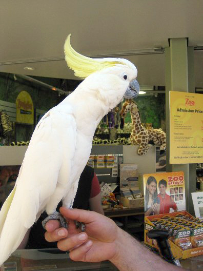 Jake the (female) cockatoo, one of Wellington Zoo's visitor experience animals.